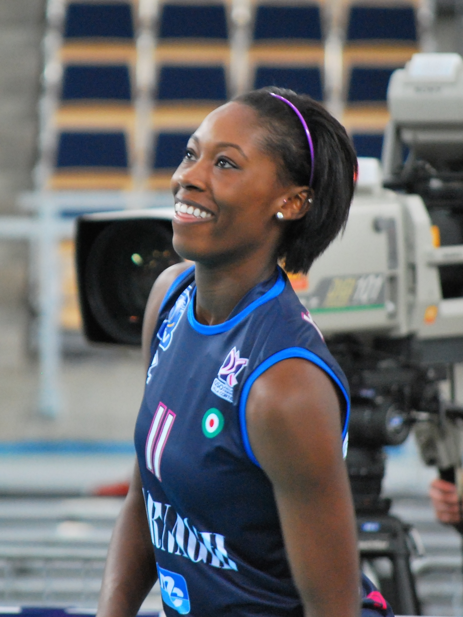 Megan Hodge, american volleyball player